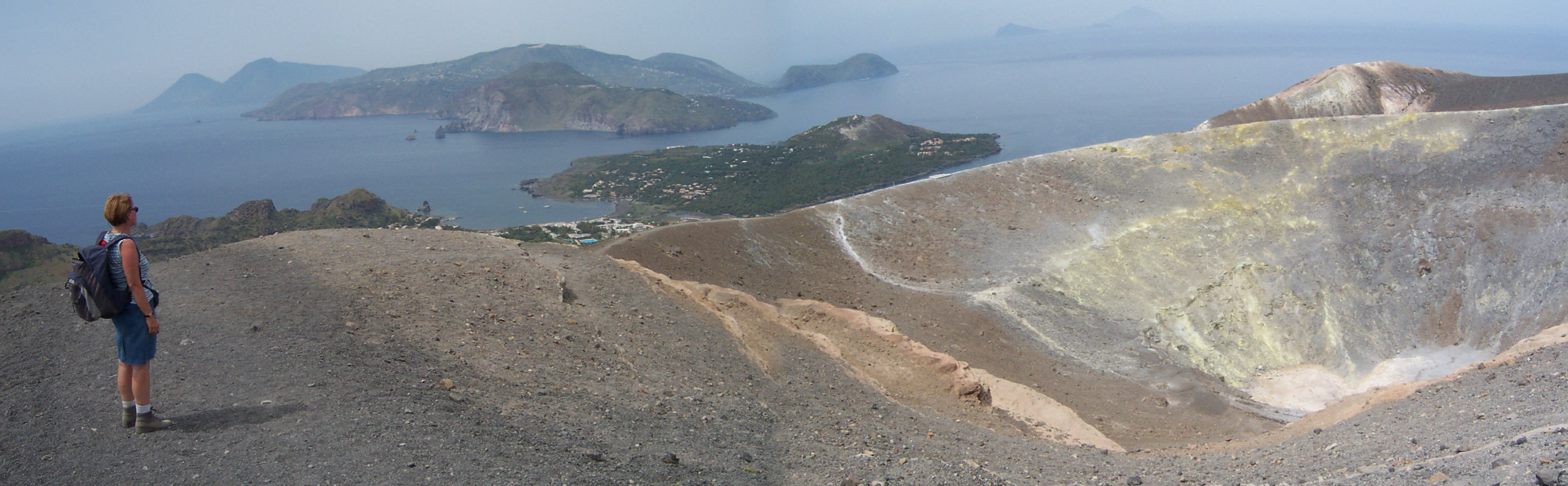 Vulcano Island, Sicily.